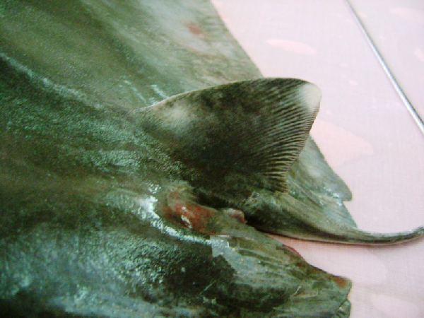 Mobula kuhlii in Pakistan, Karachi